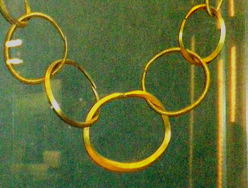 Naturhistorisches Museum Wien Dacian Gold